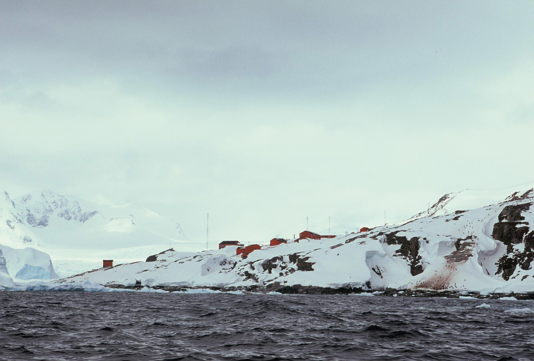 Base Primavera at Cierva Cove in Graham Land